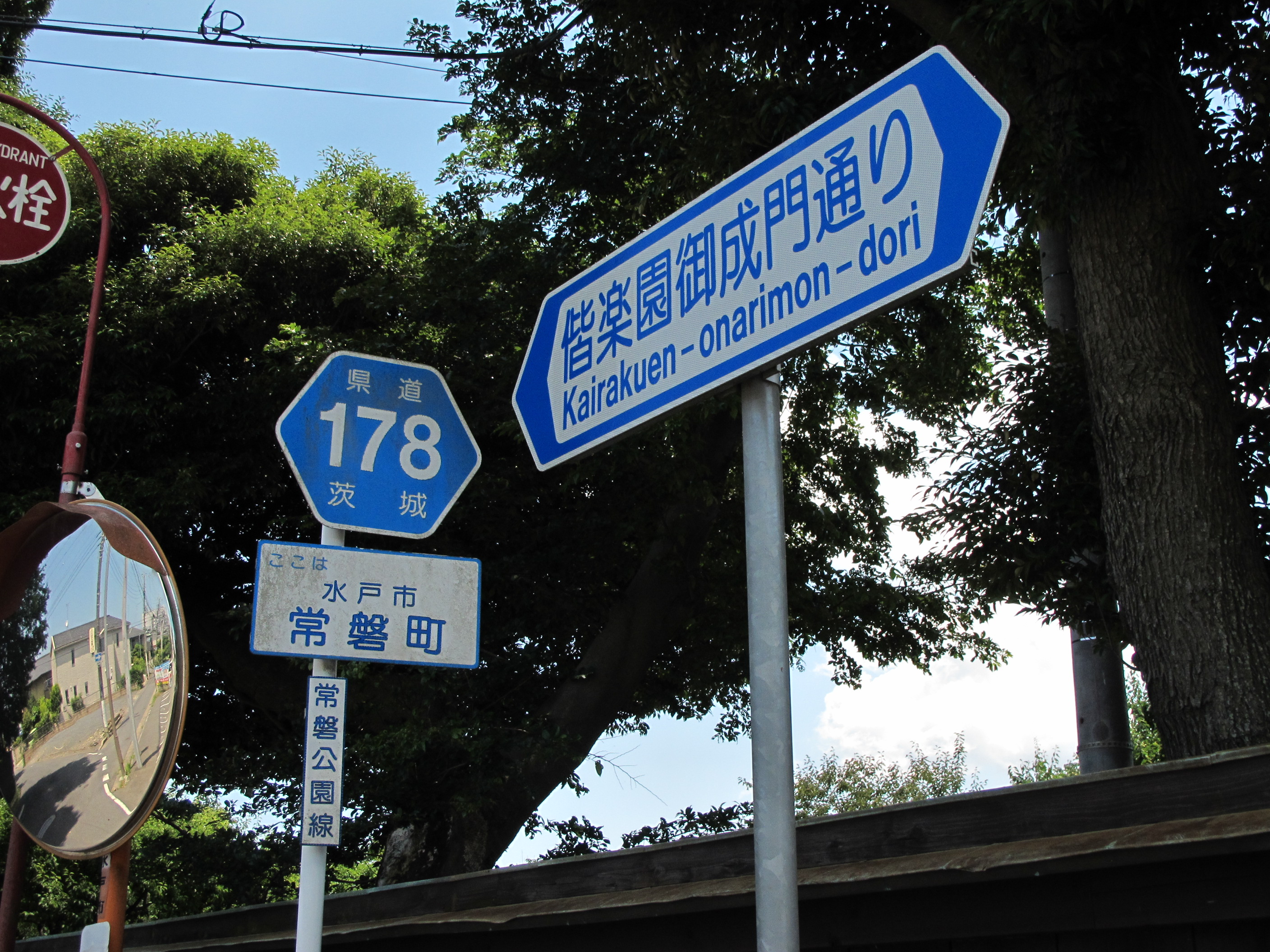 Sign for the Kairakuen-Onarimon Street (Ibaraki Prefectural Road Route 178)